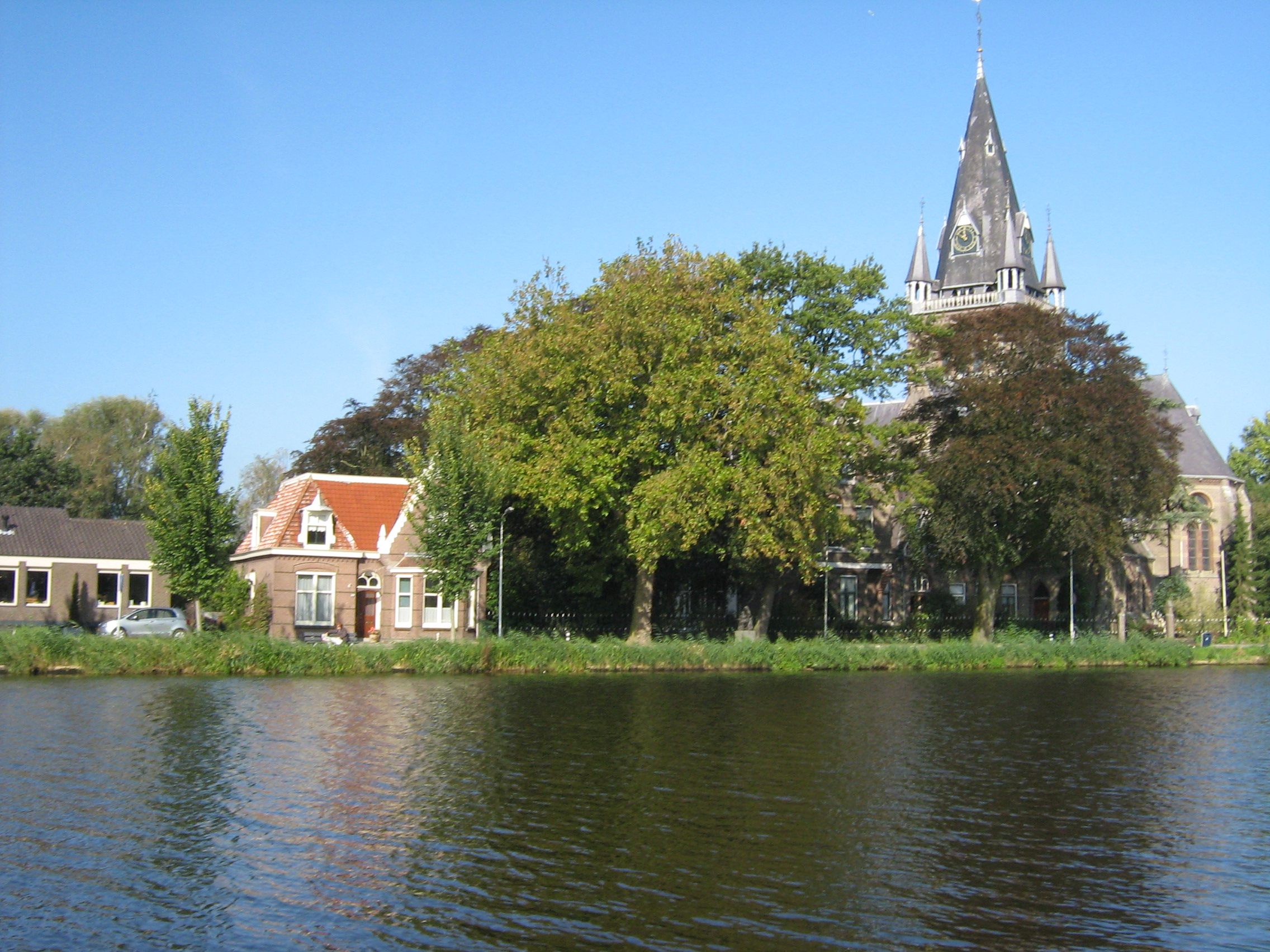 View of Nes aan de Amstel, a village in the municipality of Amstelveen, the Netherlands. The water in the foreground is the river Amstel. Photograph taken from the east on October 6 2007 by the uploader, who has donated it to the public domain.